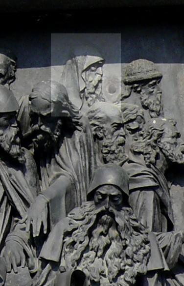 Petro Mohyla on the Monument "Millennuim of Russia" in Veliky Novgorod